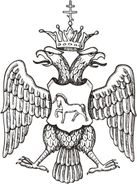 Coat of arms of Tsardom of Russia during the reign of Ivan Grozny, 1562.